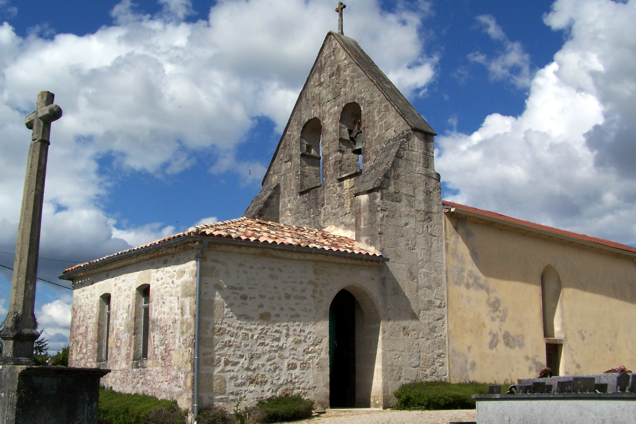 Church of Caumont (Gironde, France)